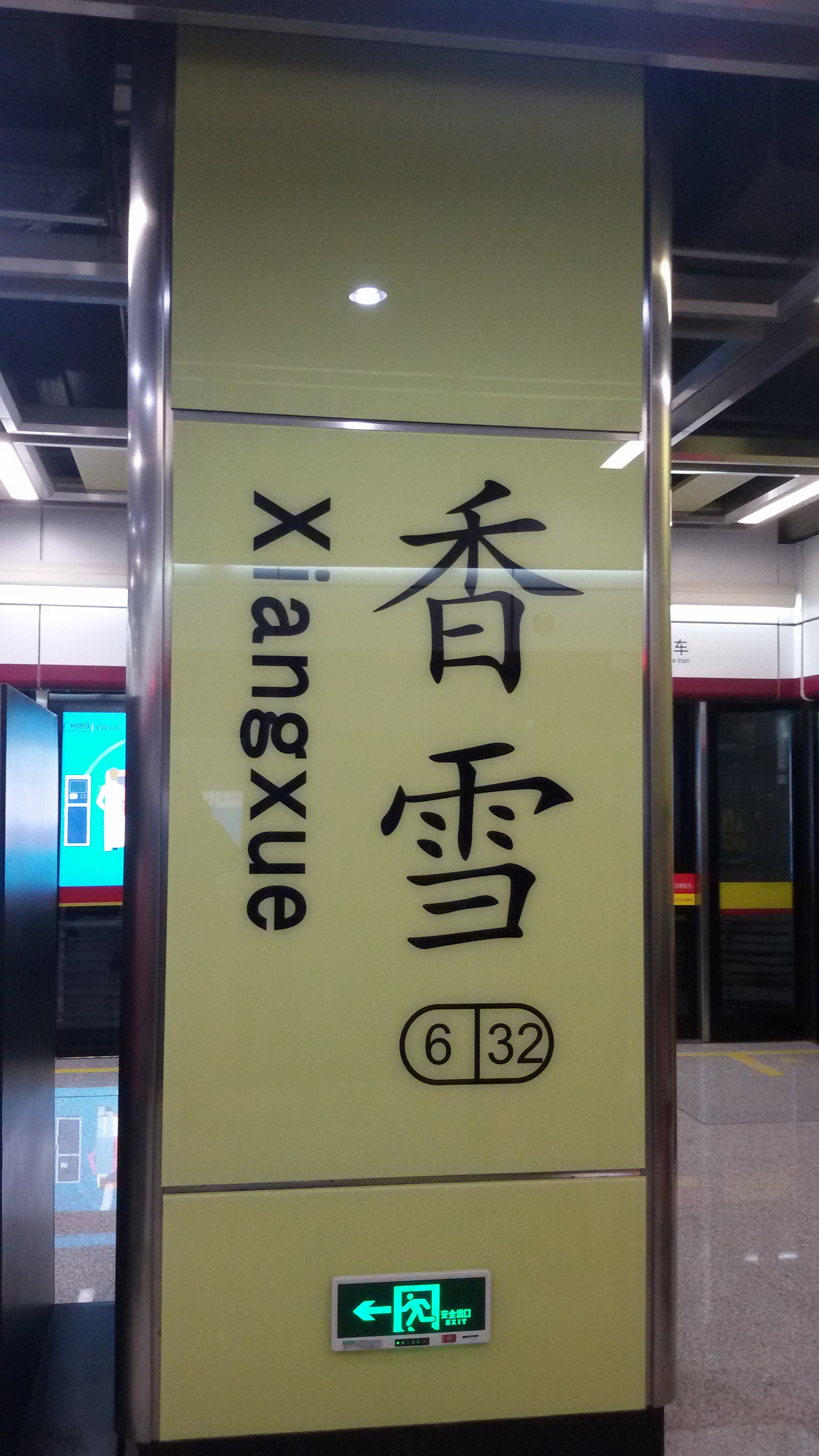 WORD on PILLAR for Xiangxue Station in Guangzhou Metro